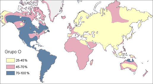 Percent of Native population that has the O blood type